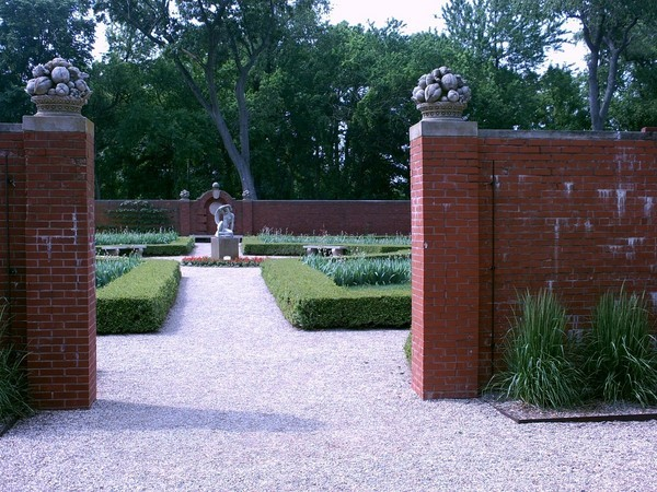 The Walled Garden is the oldest at the park, having been constructed in 1902. At its center is the Girl with a Scarf sculpture.